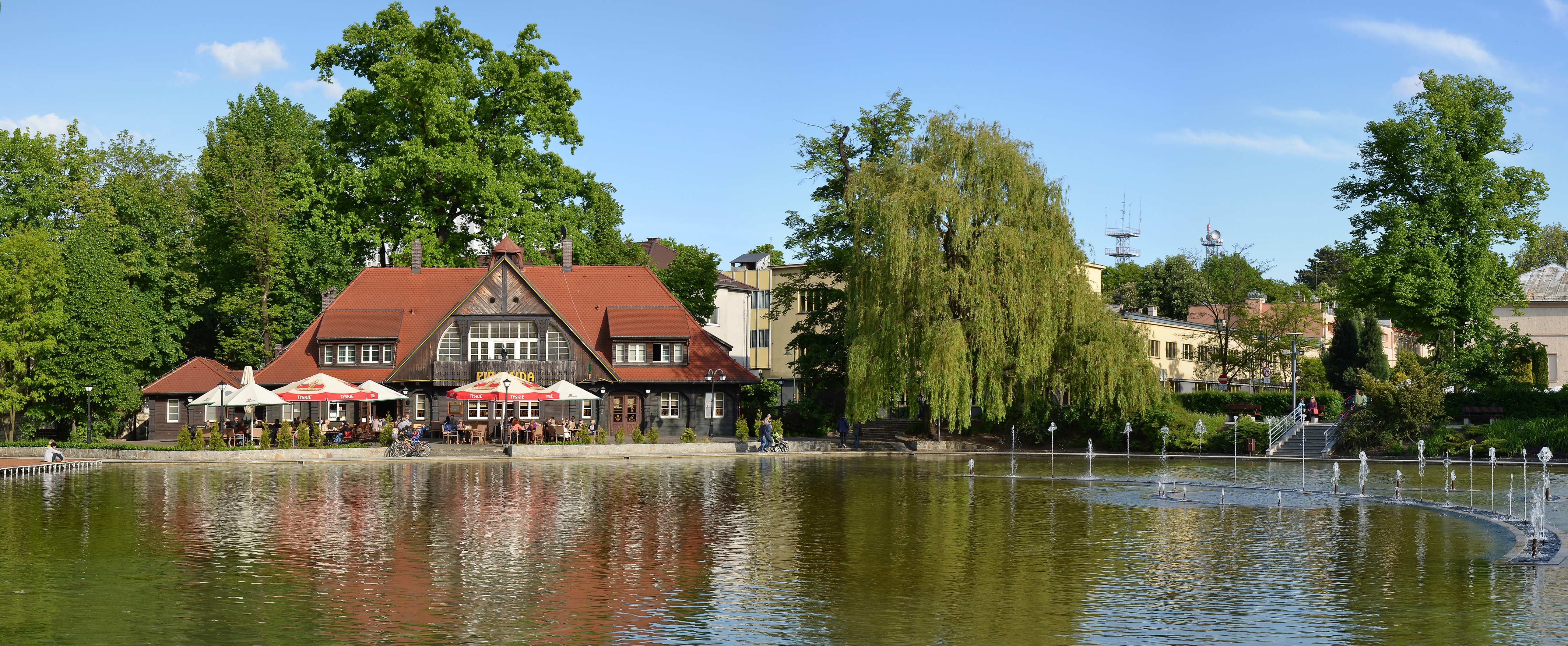 Icehouse (Domek Lodowy, Eishaus) in Opole (Oppeln), Upper Silesia